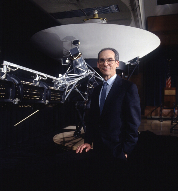 In 1972, Ed Stone became the Voyager Project Scientist. Twenty years later, both Voyager spacecraft were still operating, and this photo was taken in front of a full-scale model of the spacecraft, after Stone had been Director of JPL for about one year.